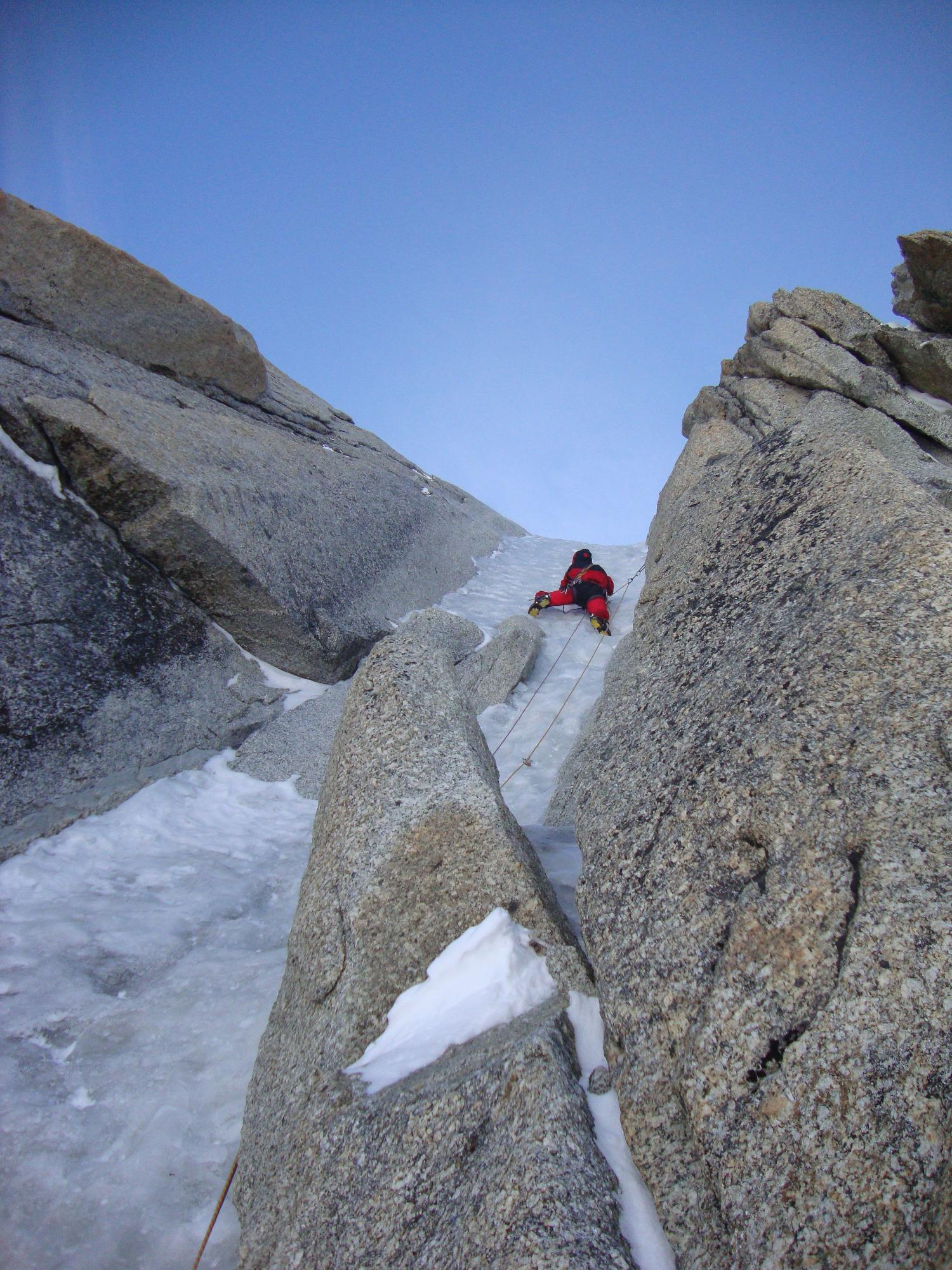 Triangle du Tacul - Goulotte Chèré